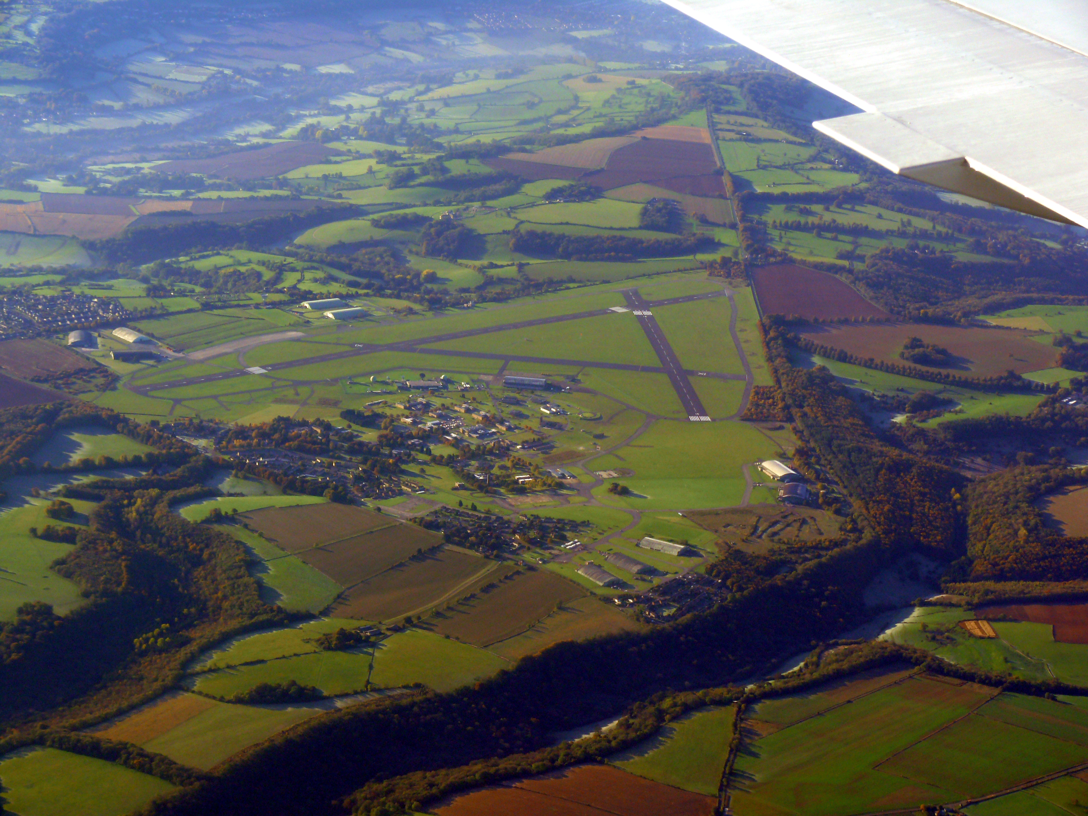 RAF Colerne now known as Colerne Airfield is a former World War II RAF Fighter Command and Bomber Command airfield located on the outskirts of the village of Colerne, Wiltshire.